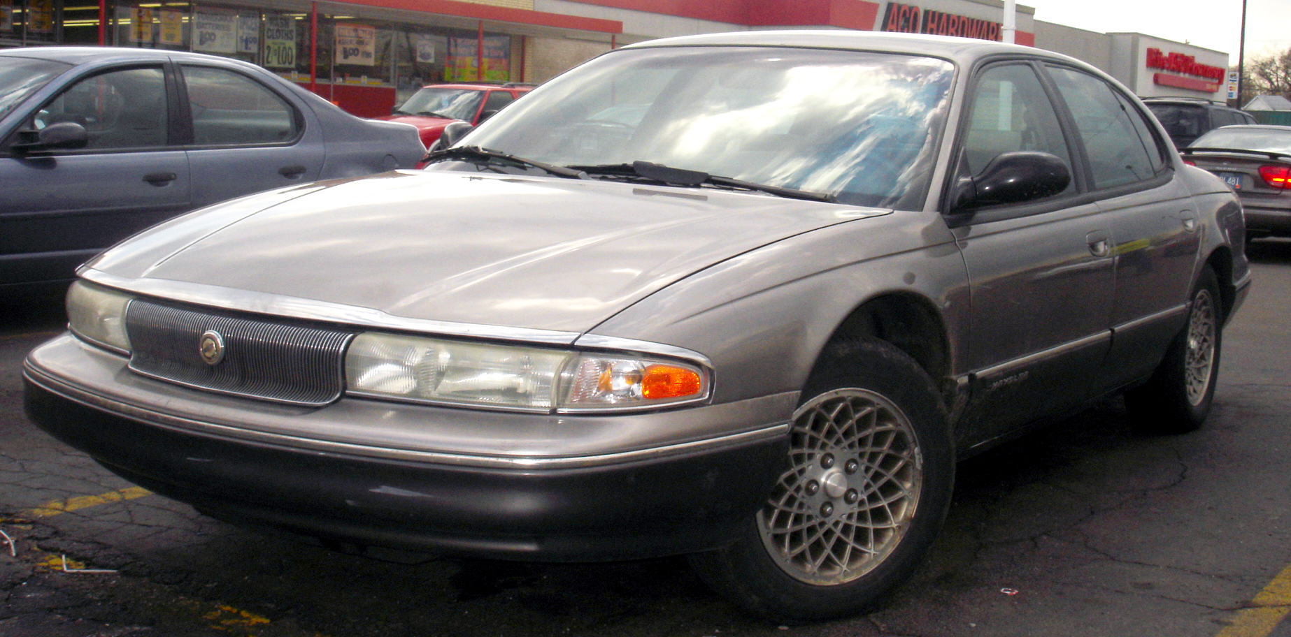 1995-1996 Chrysler New Yorker photographed in USA.